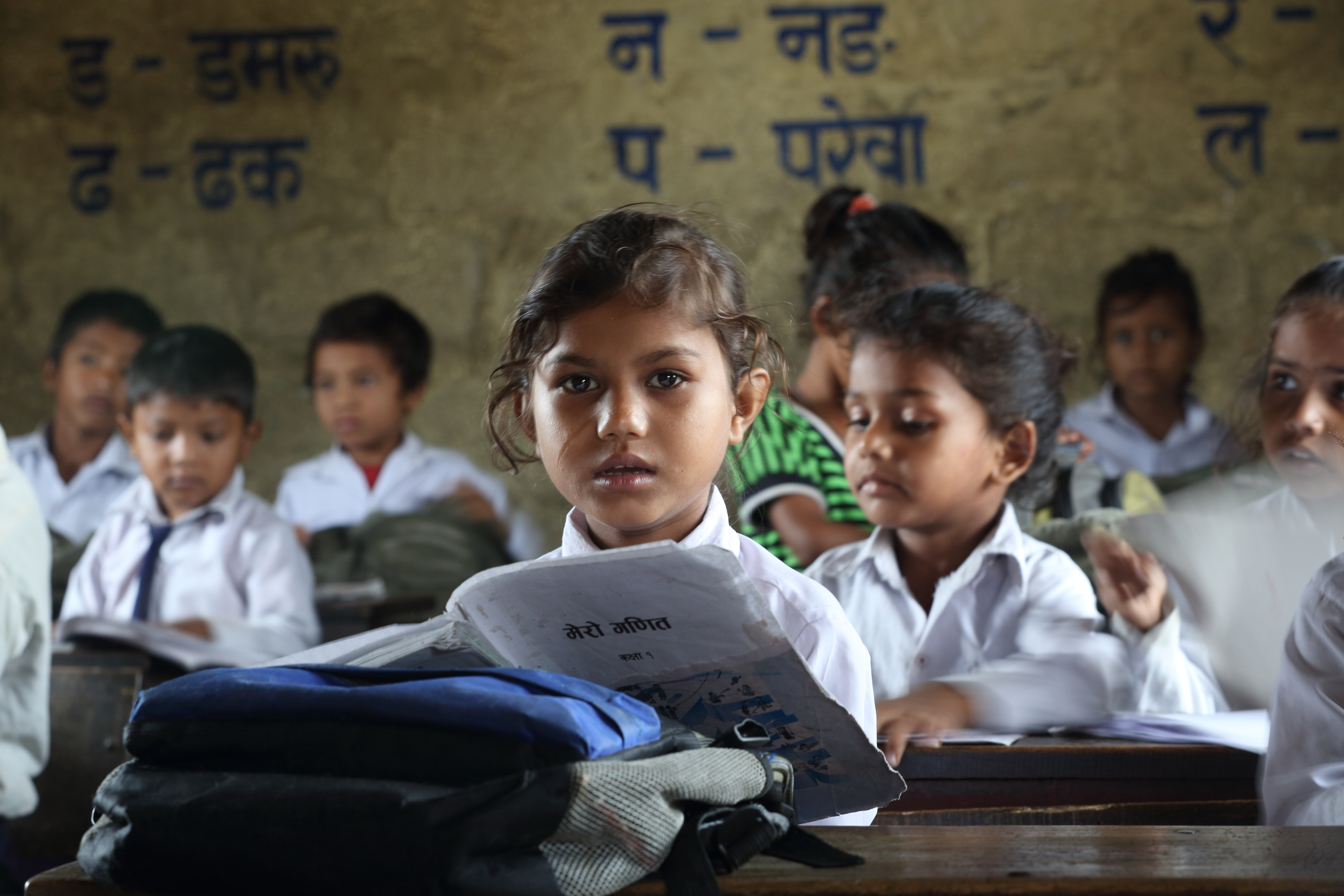 Students study at Shree Sahara Bal Primary School, Pokhara , grade1, Pokhara, Nepal. Photo by Jim Holmes for AusAID. (13/2529)